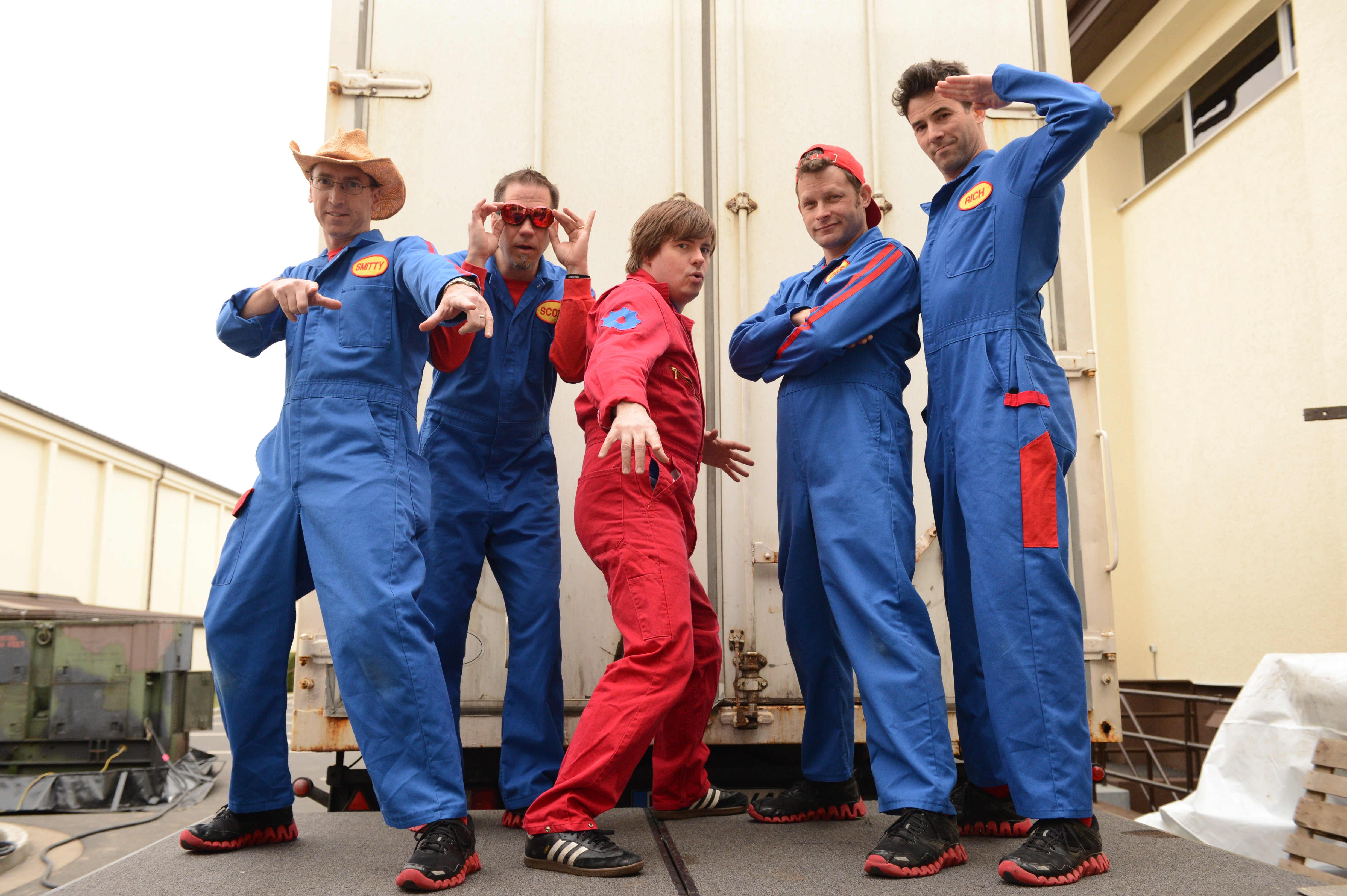 SPANGDAHLEM AIR BASE, Germany – Members of the Imagination Movers group pose for a photo at the Skelton Memorial Fitness Center April 11, 2013. Imagination Movers is an educational children’s band that began in 2003 when a group of friends decided to write songs after putting their children to bed. Spangdahlem was the first stop for the Armed Forces Entertainment and the U.S. Navy-sponsored tour through Europe.